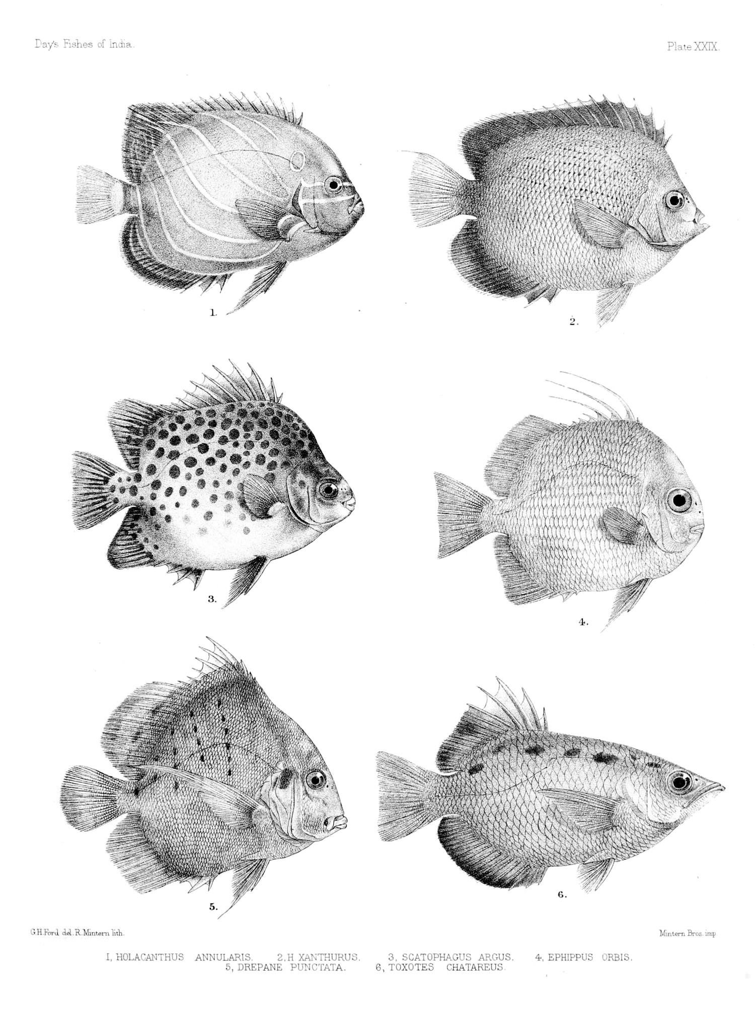 1 – Holacanthus annularis (=Pomacanthus annularis), 2 – Holacanthus xanthurus (=Apolemichthys xanthurus), 3 – Scatophagus argus, 4 – Ephippus orbis, 5 – Drepane punctata, 6 – Toxotes chatareus.